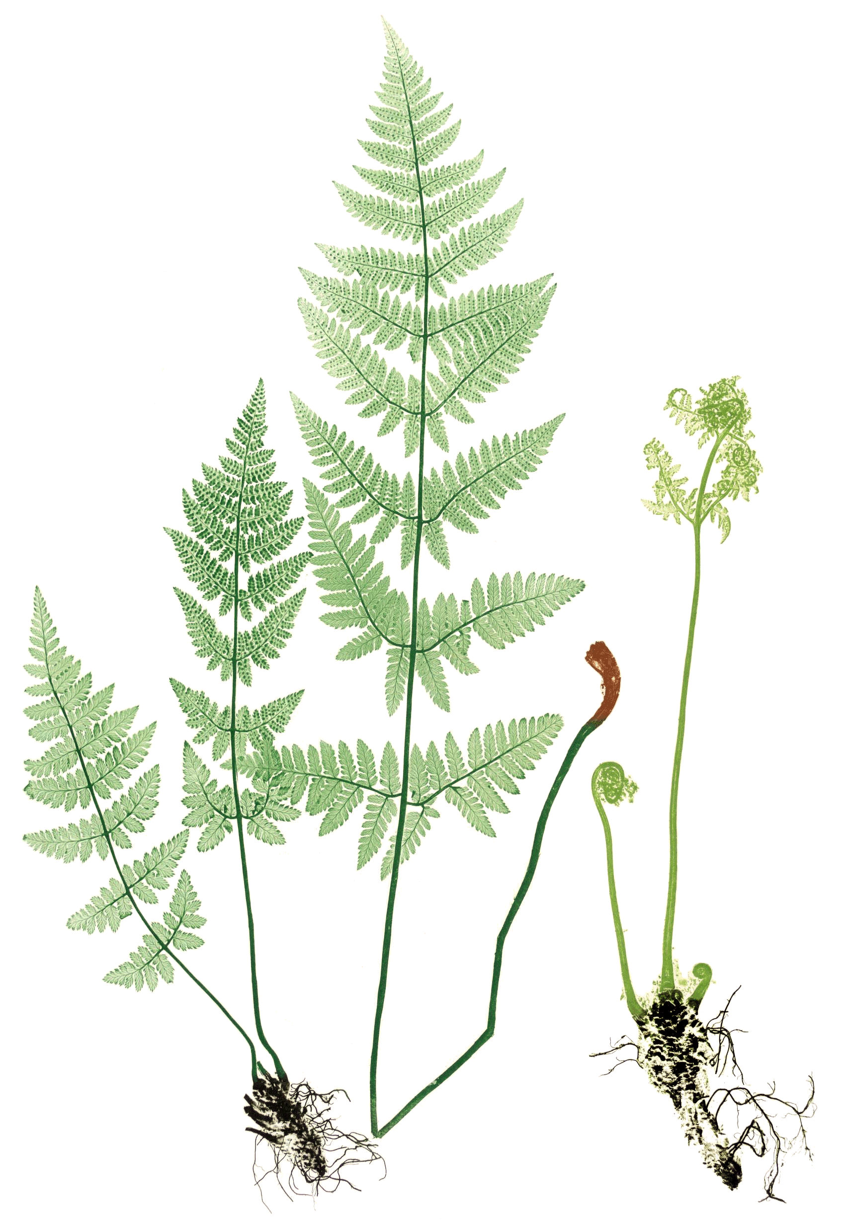 Dryopteris carthusiana print from actual ferns